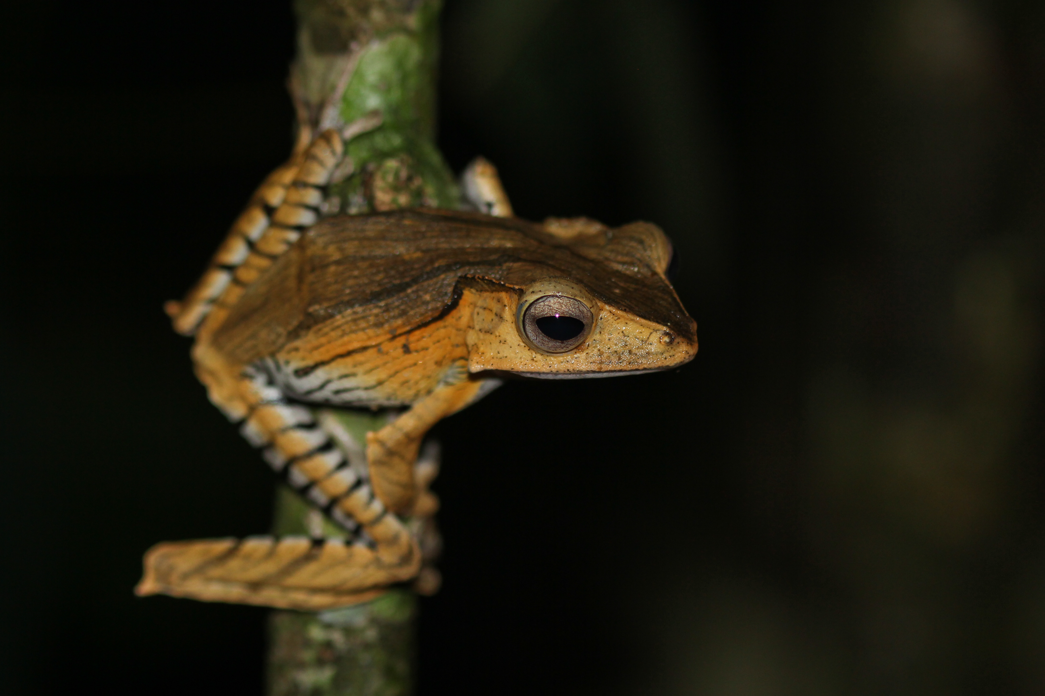 Borneo eared frog (Polypedates otilophus) from Kubah National Park